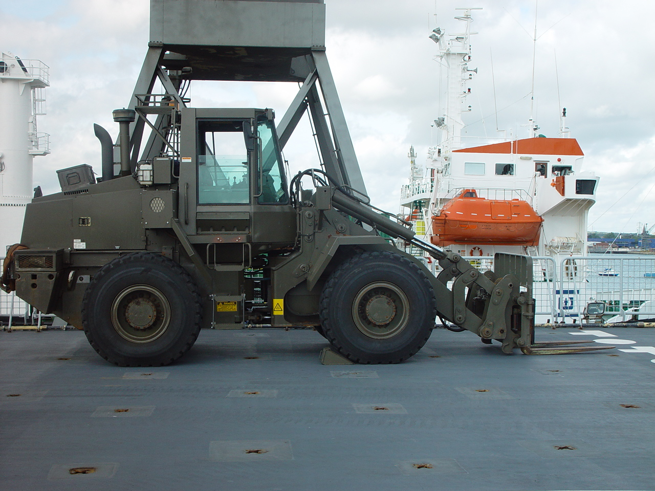 fork lift in harbor